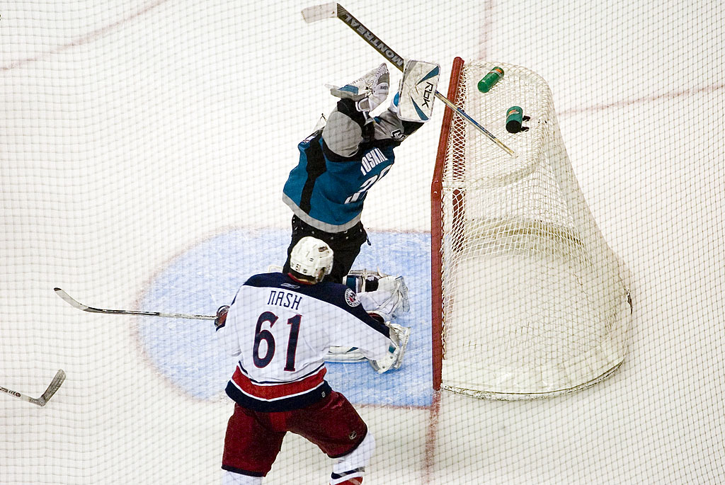 Columbus Blue Jackets vs. San Jose Sharks 3/16/2007